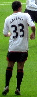 Ross Wallace. Image cropped from original at flickr.